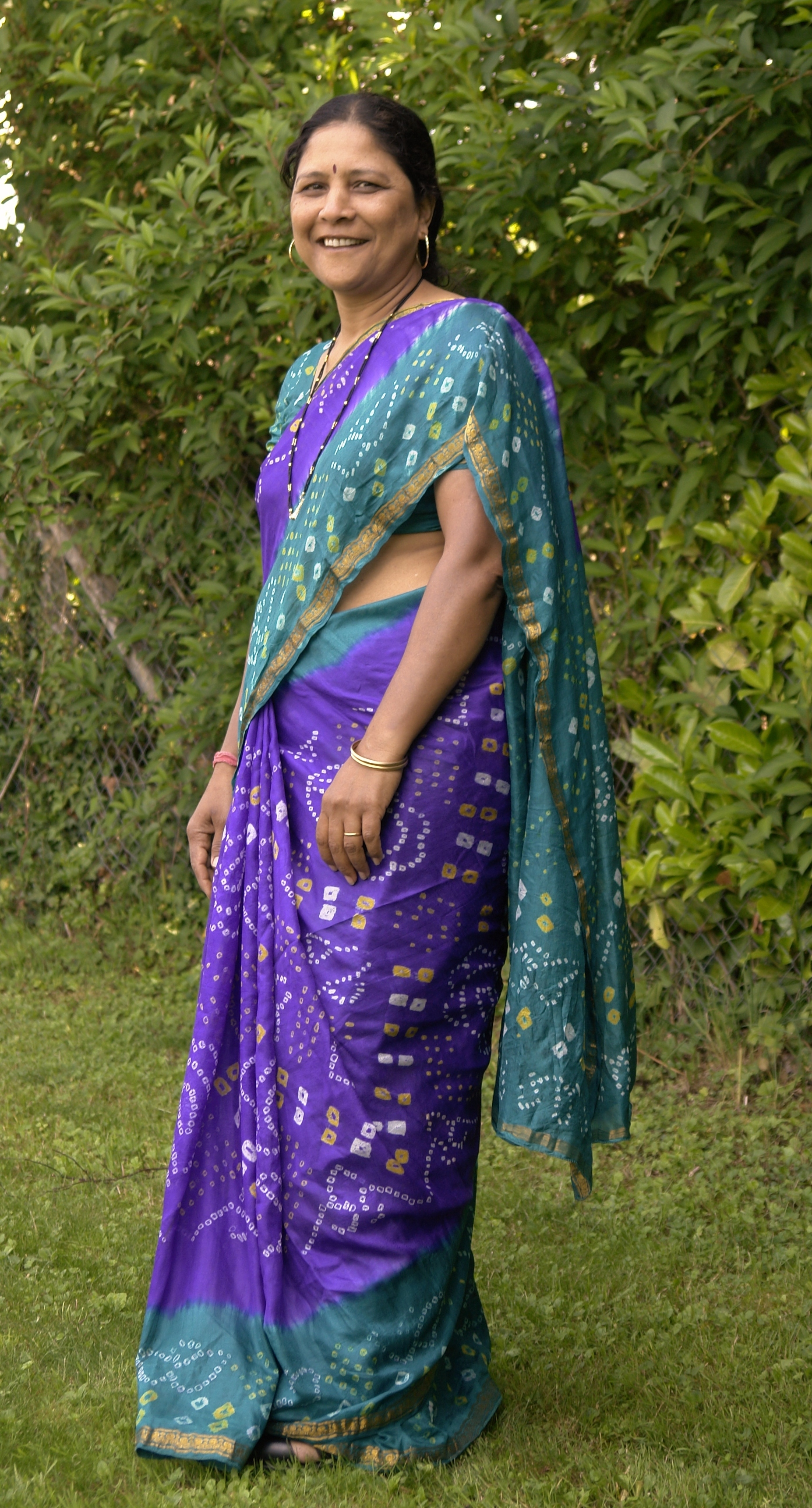 Blue sari. Picture taken in Europe. The model posed. Geolocalisation withheld for privacy reasons.